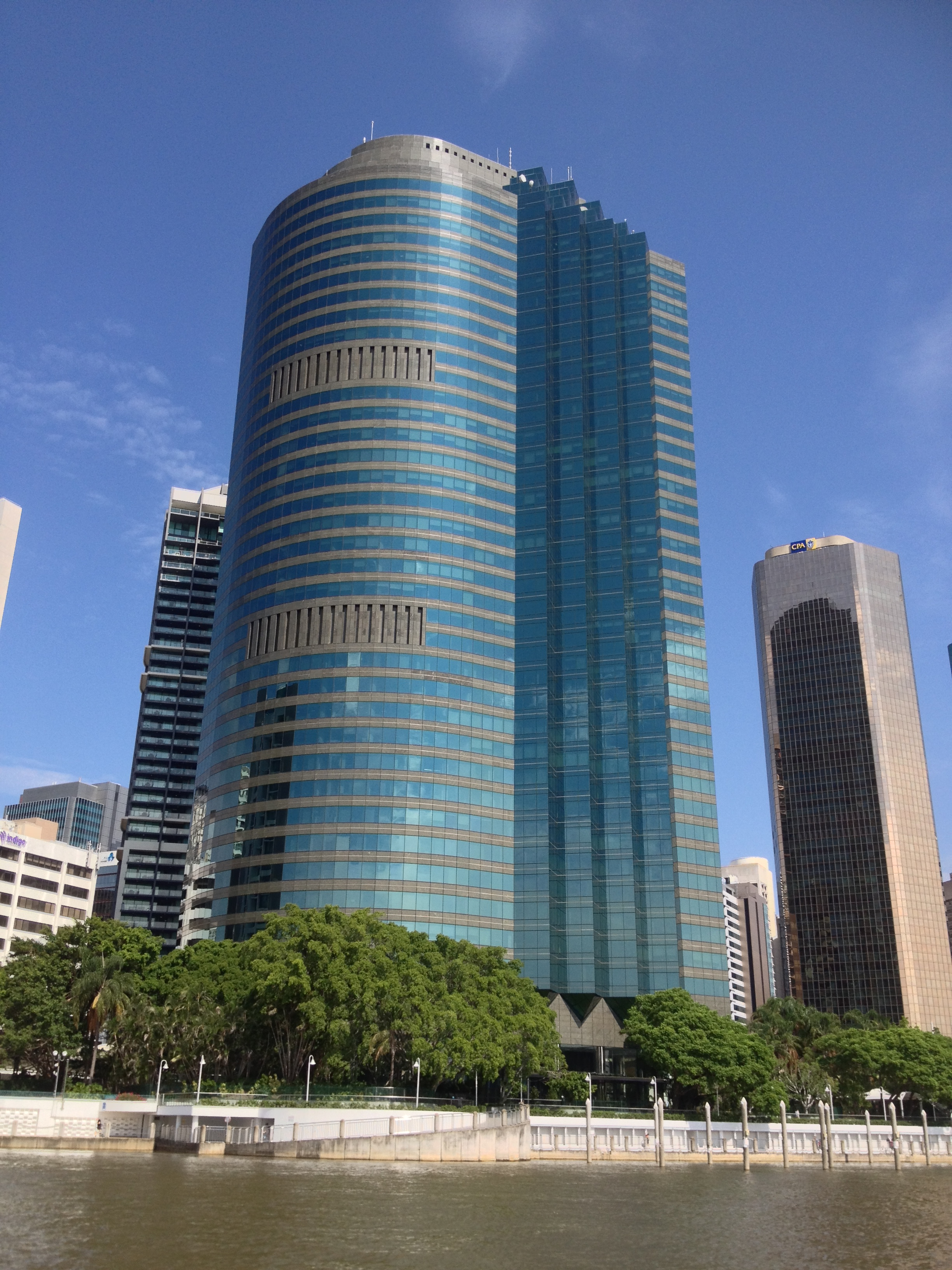 Waterfront Place, Brisbane seen from the river